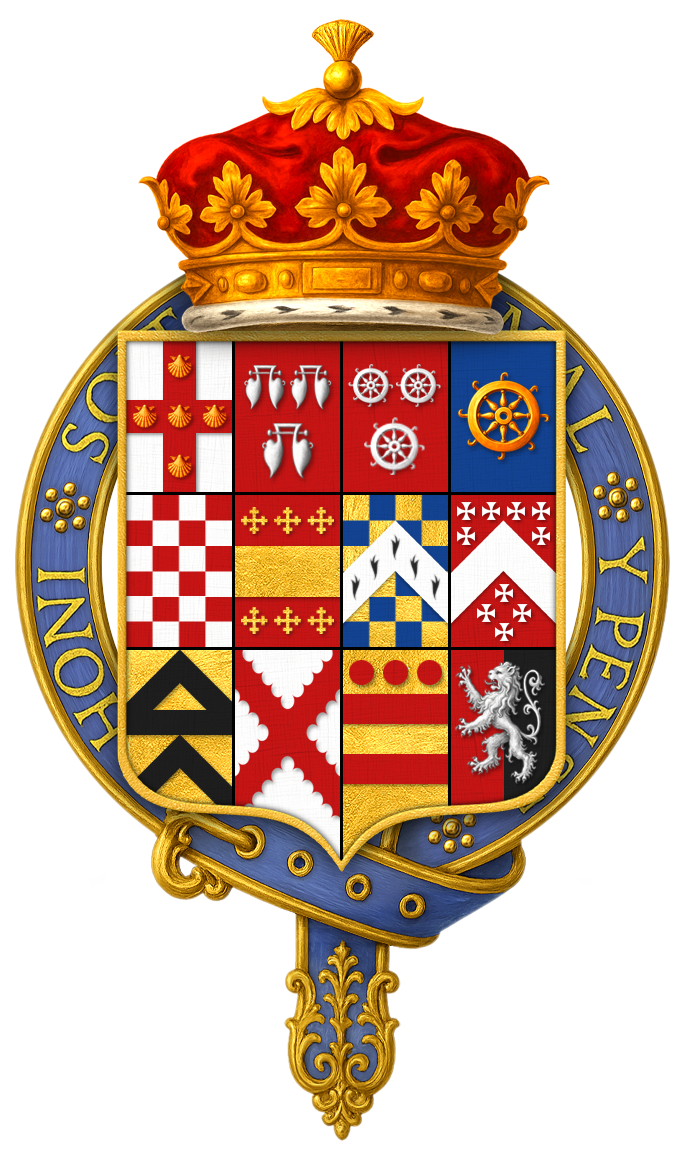 Coat of arms of George Villiers, 2nd Duke of Buckingham, KG